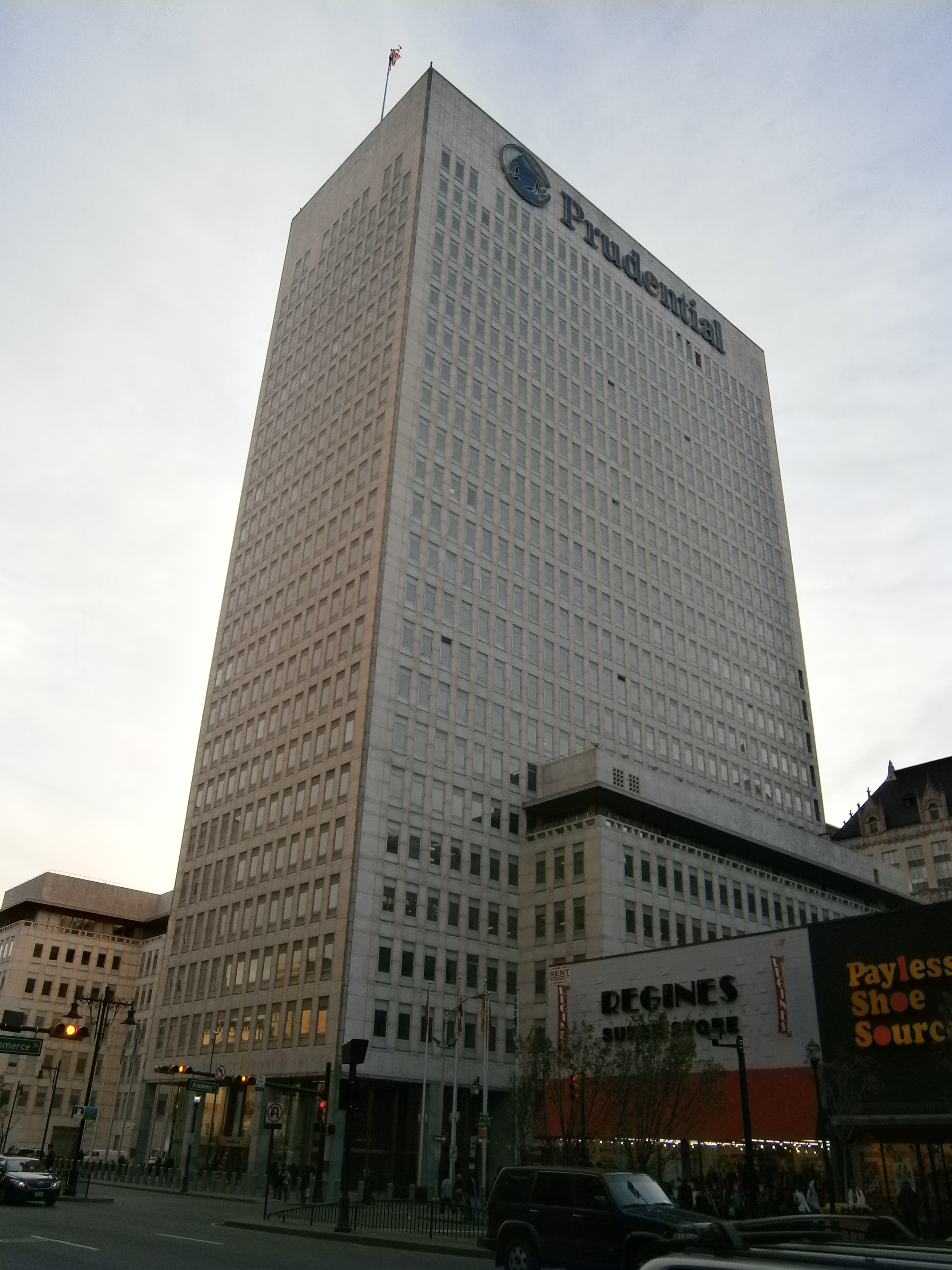 Prudential Plaza - headquarters on Broad Street - Newark